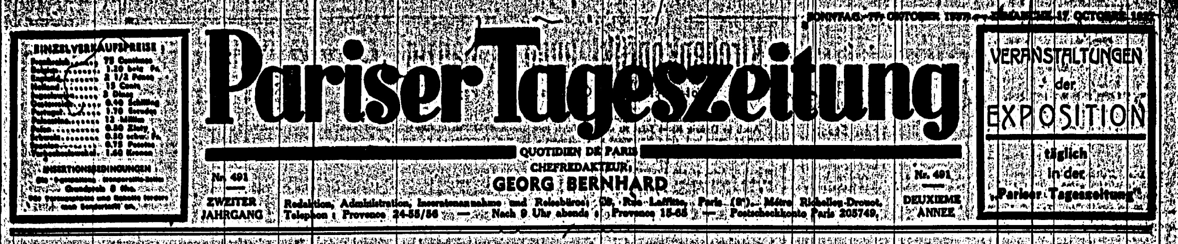 Header of "Pariser Tageszeitung", without content